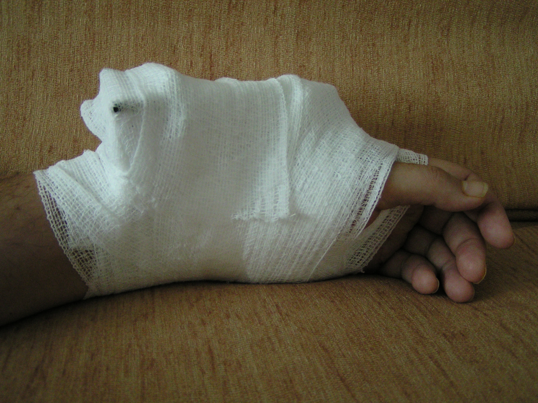 Healing the wrist fracture after surgery. Picture taken by Janothird, February 14th, 2006